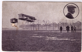 Postcard. The Voisin de Caters at Antwerp's Flying Week 1909.